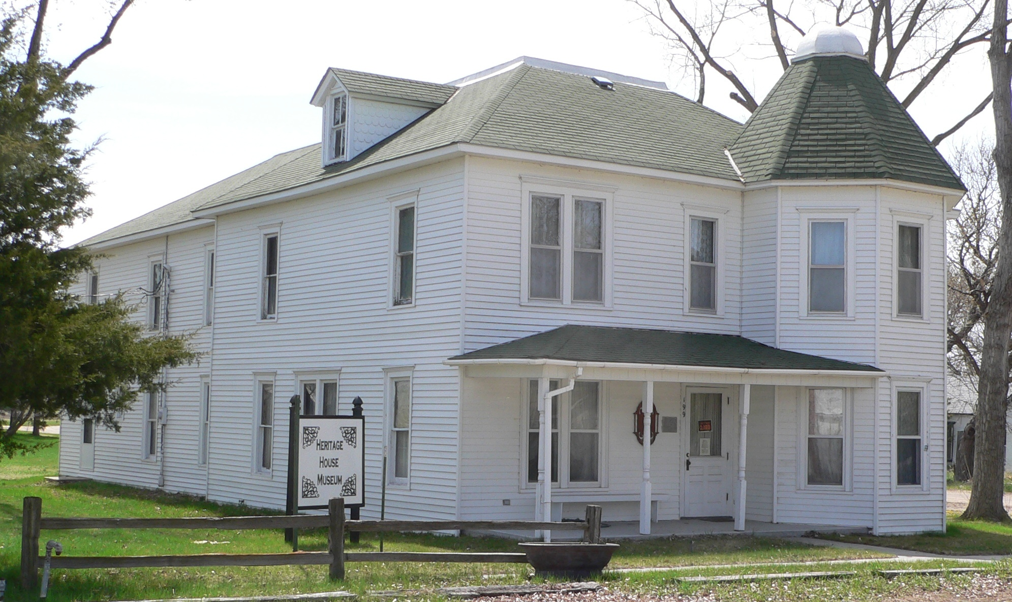 Miller Hotel in Long Pine, Nebraska; seen from the northeast. Also known as the Luehrs Rooming House, the Queen Anne building was constructed in 1895. It is now operated as the Heritage House Museum. The building is listed in the National Register of Historic Places.